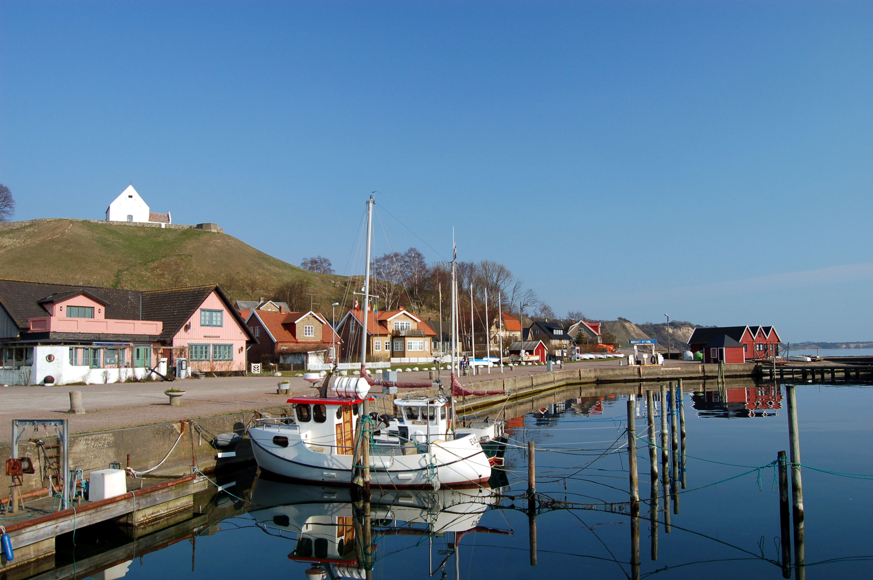 Kyrkbackens harbour on the swedish island Ven